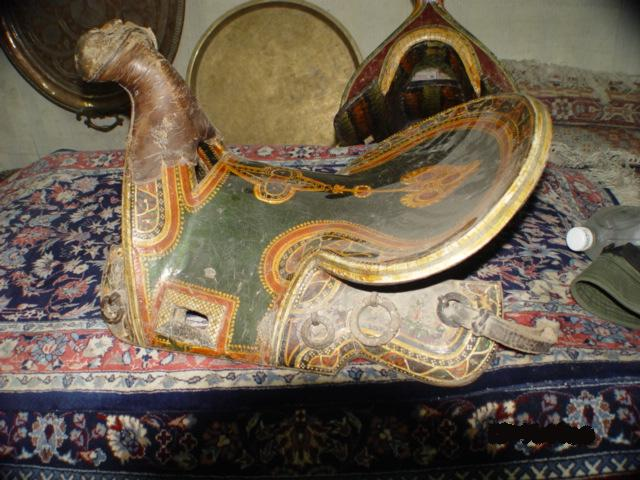 I, David Straub, took this photo July 12, 2004 in Kashgar, China. The photo is of an antique Central Asian saddle. In the background is another saddle. The saddle has a wooden base, inlay bone, and laquer paint. Permission is granted to use this photo for non-commercial purposes.--David Straub 13:56, 20 February 2007 (UTC)